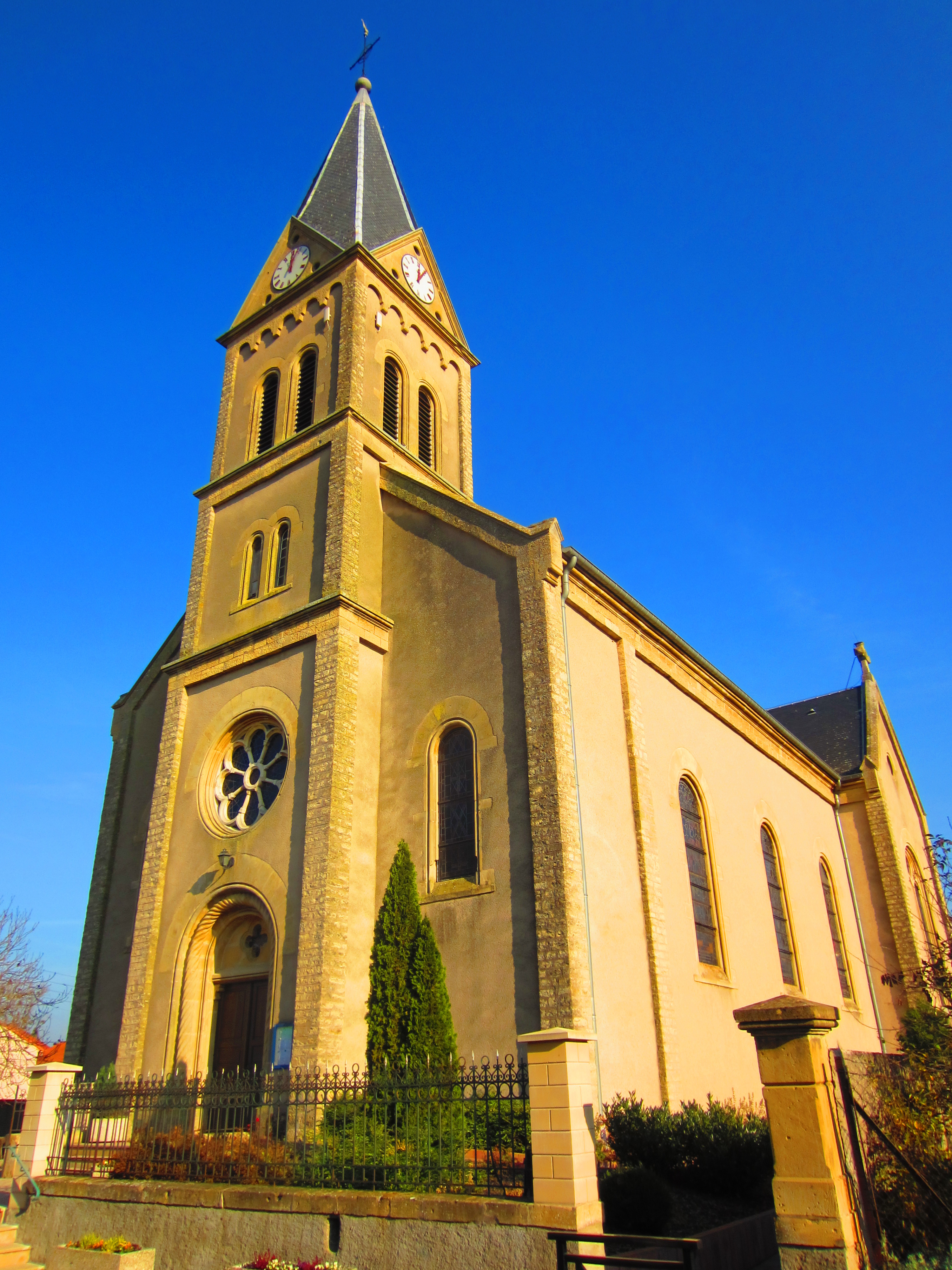 Description eglise Fixem Date21 November 2011Sourcemon appareil photoAuthorAimelaimePermission (Reusing this file) eglise Fixem